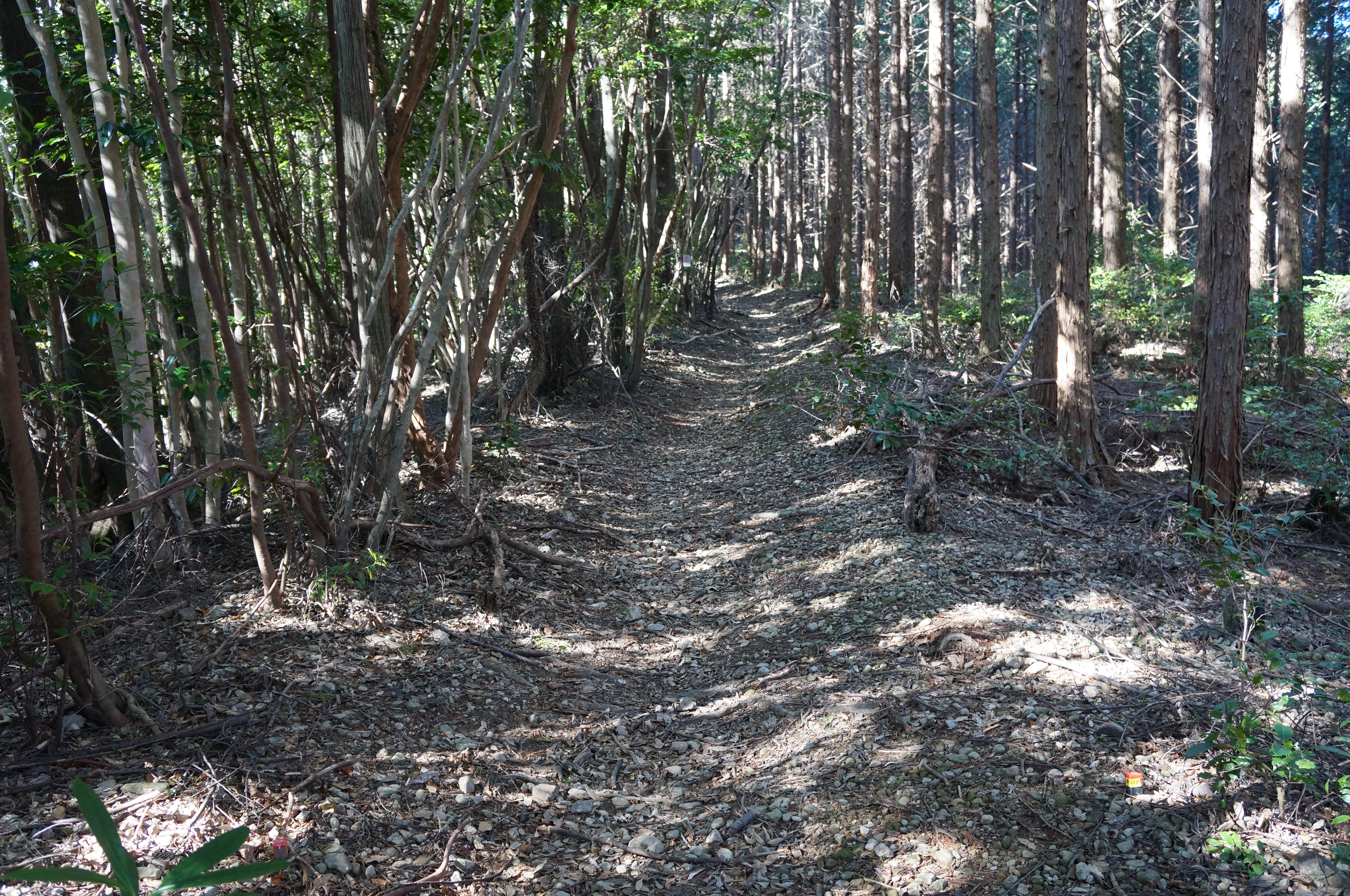 Nakatosa side of Soemimizu Henromichi